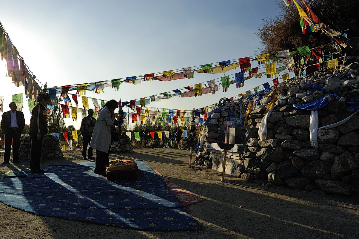 A woman praying at an aobao (敖包), that is a traditional Mongolian altar dedicated to gods or ancestors, in Baotou, Inner Mongolia, China.